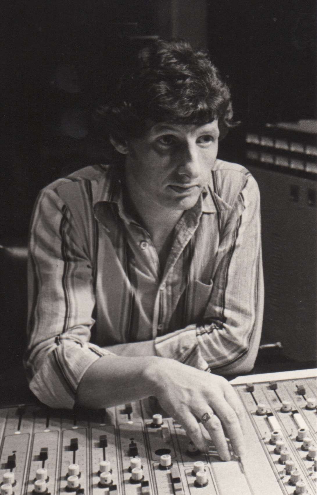 Photograph of New Zealand musician/songwriter/producer Glyn Tucker Jnr at the recording console at Mandrill Studios in 1977.